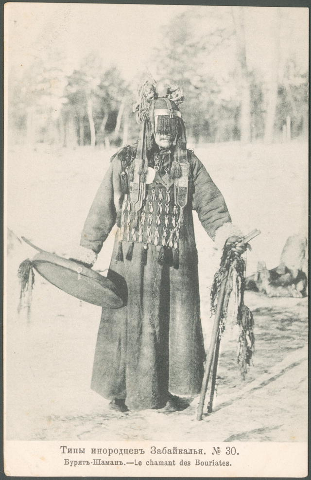 Buriat shaman